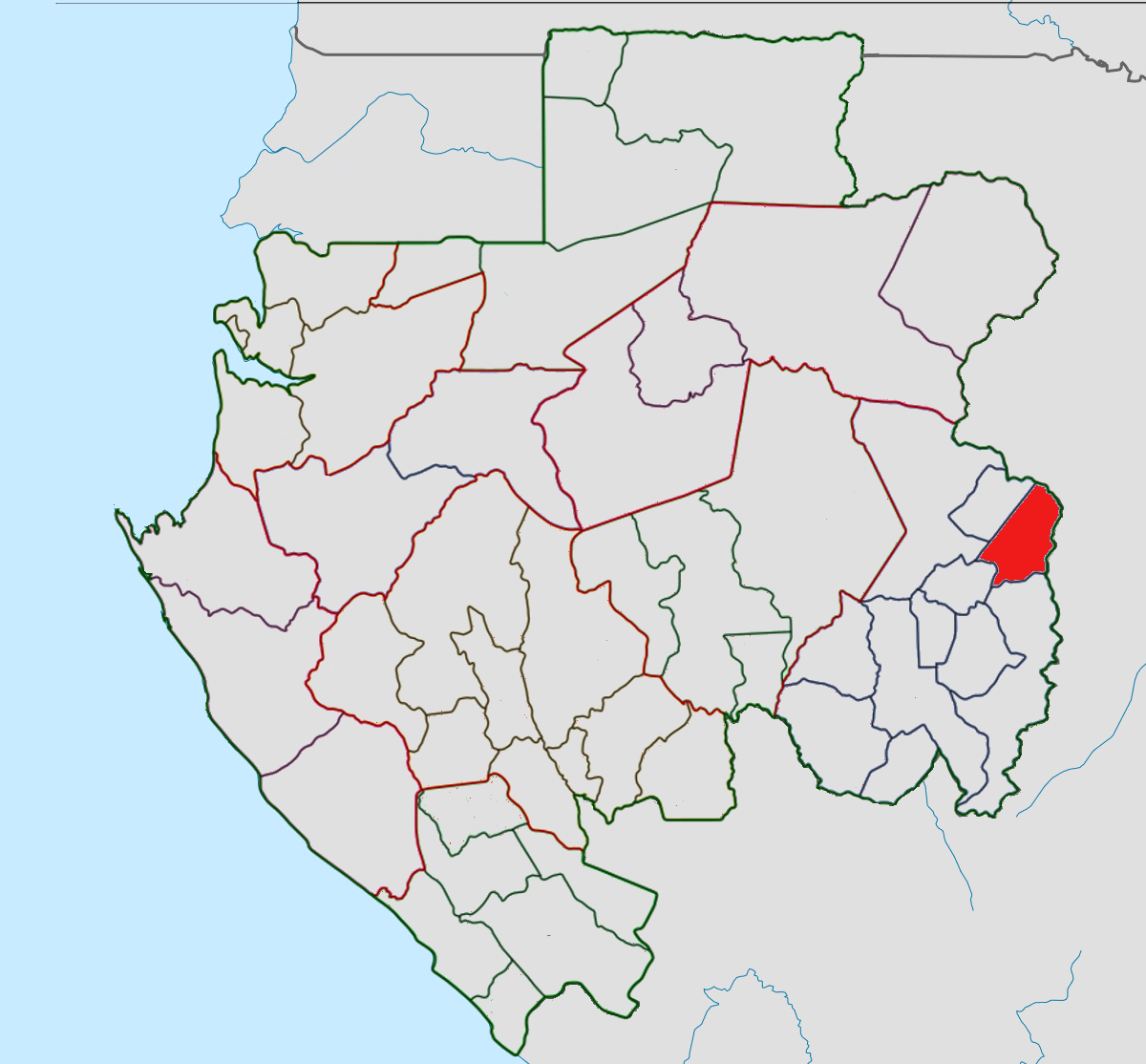 map of djoué